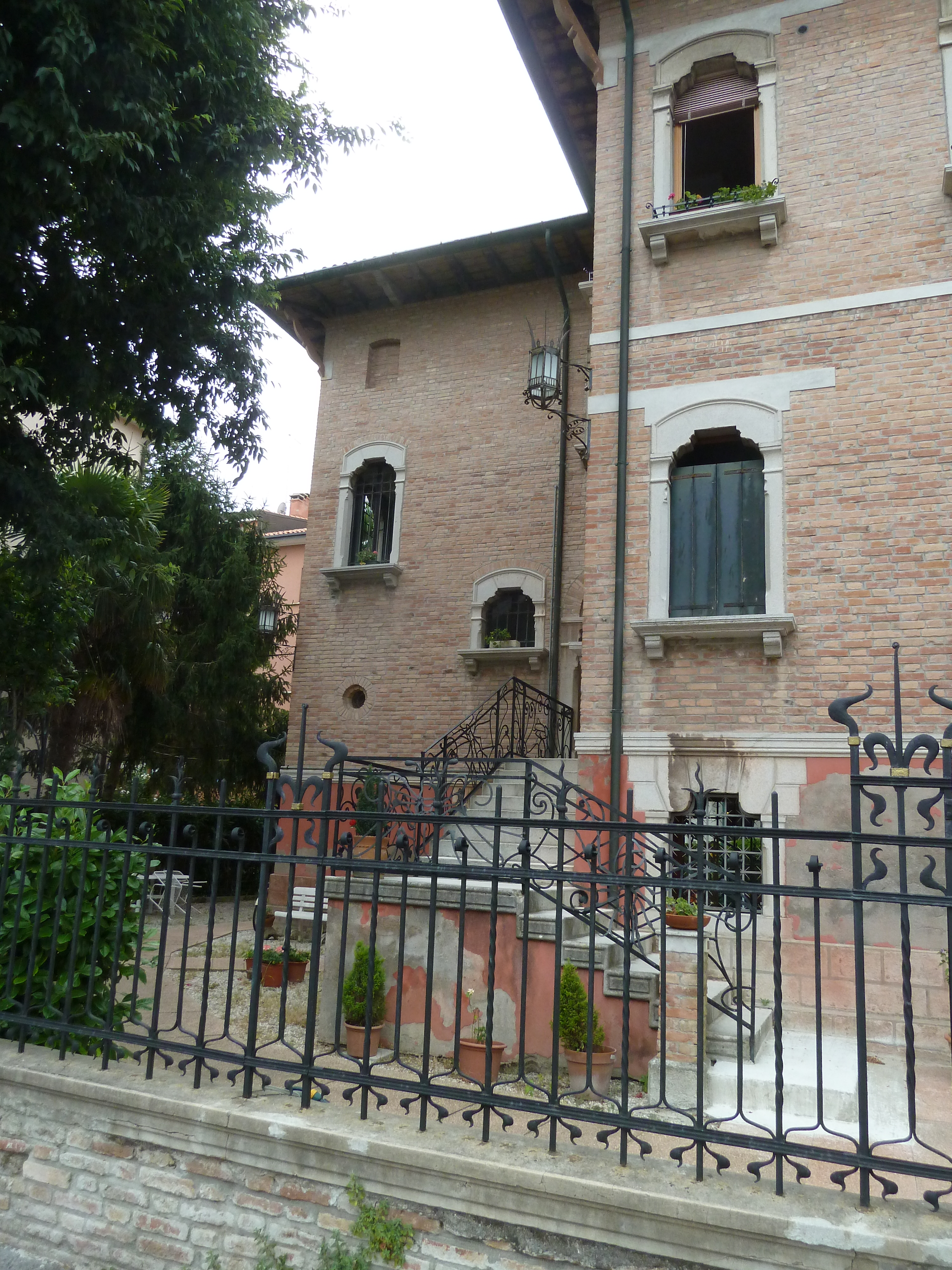 V.Padre Armeni